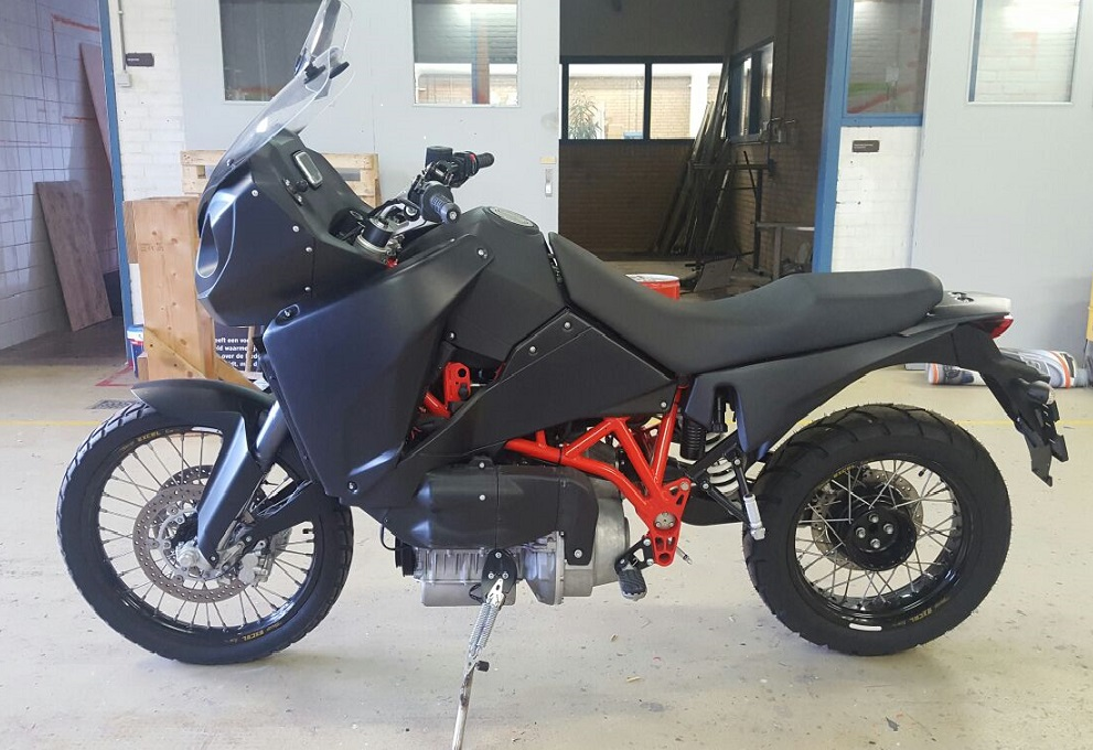 Track diesel motorcycle